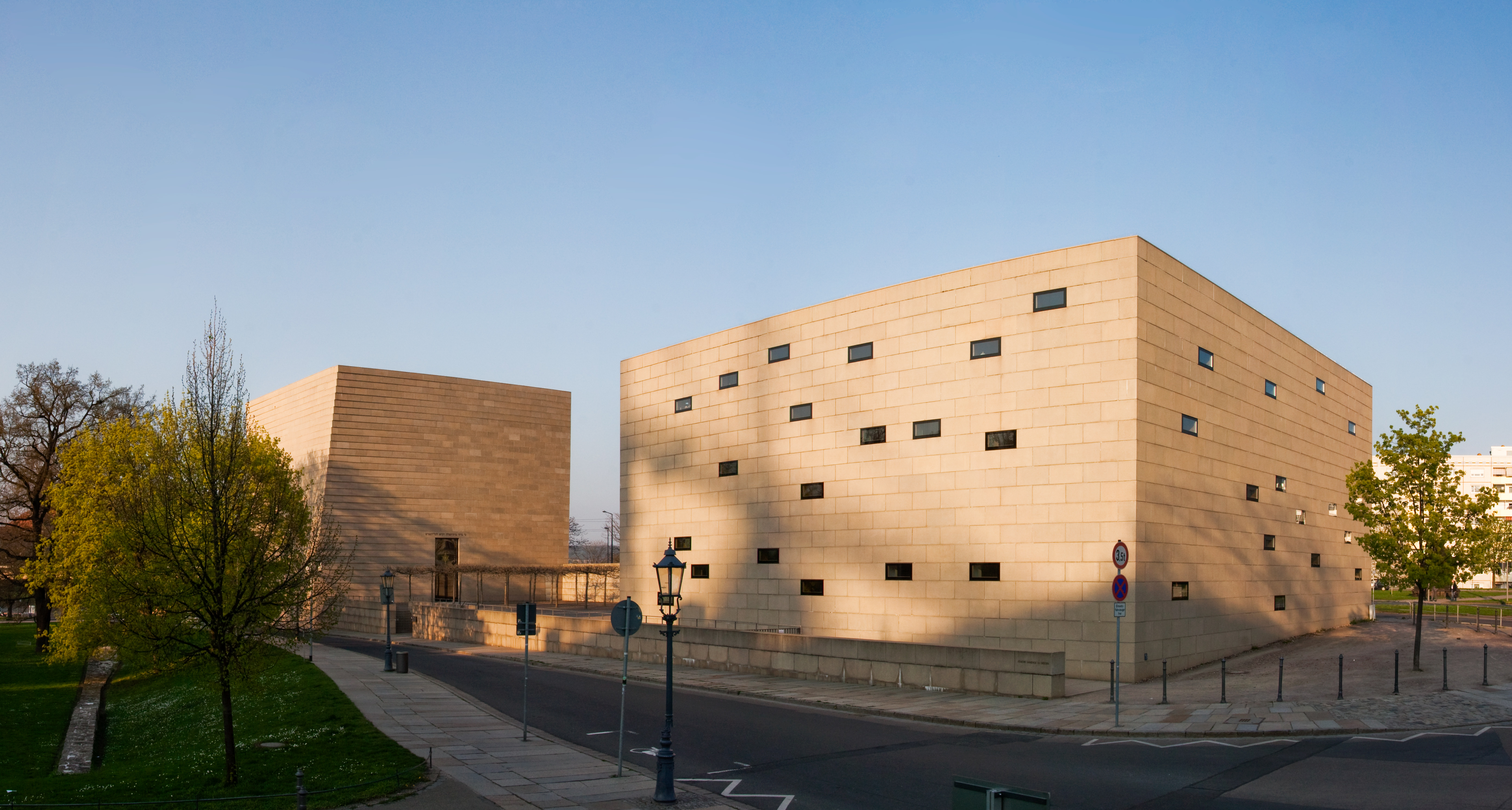 The Synagogue in Dresden